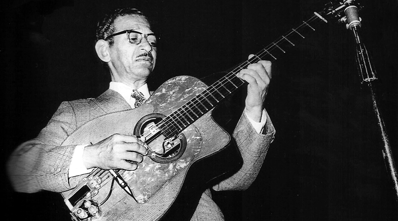 Oscar Alemán playing guitar on stage.